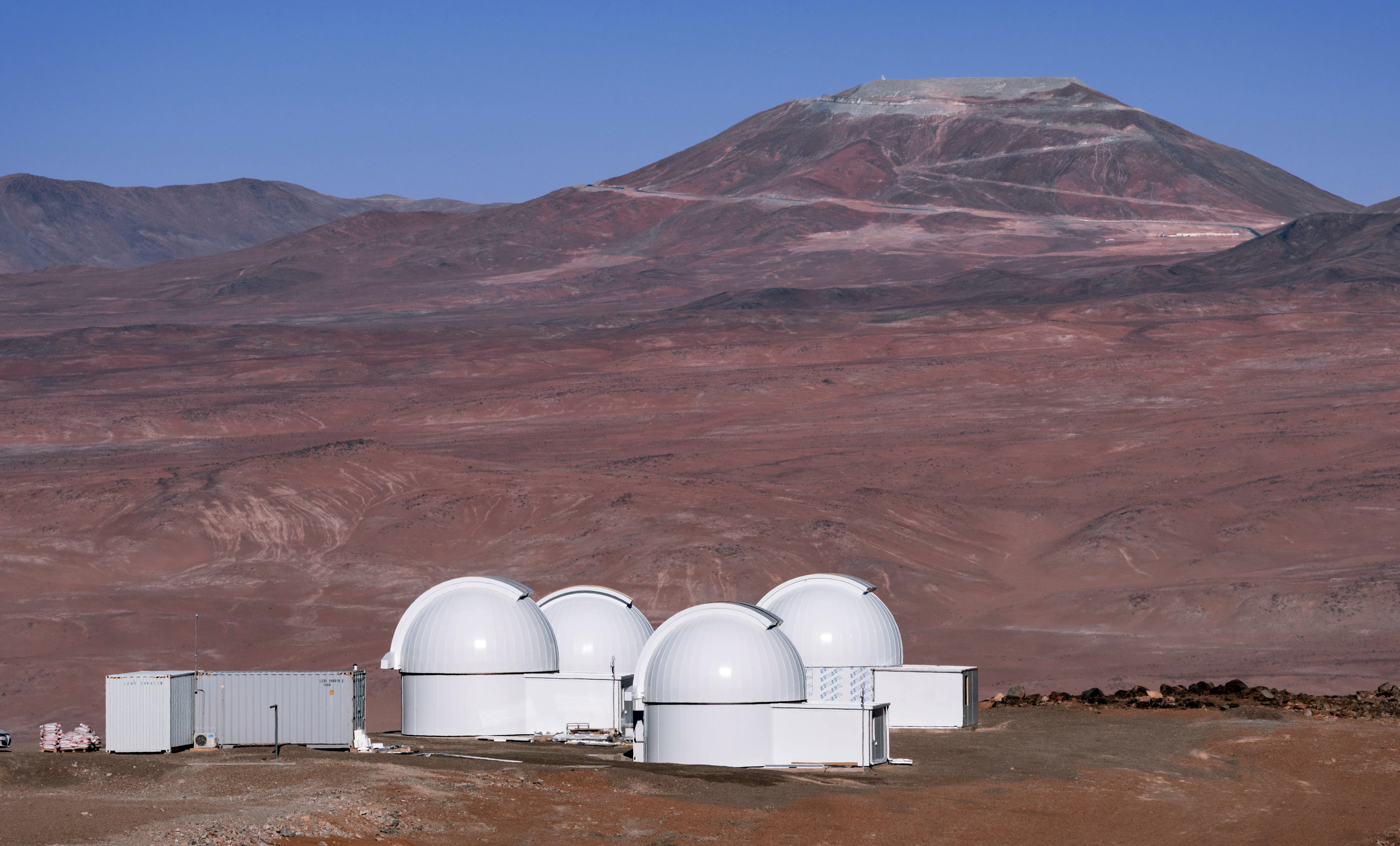 The SPECULOOS Southern Observatory has made its first observations on site at the European Southern Observatory’s Paranal Observatory in northern Chile. SPECULOOS will focus on detecting Earth-sized planets orbiting nearby ultra-cool stars and brown dwarfs.